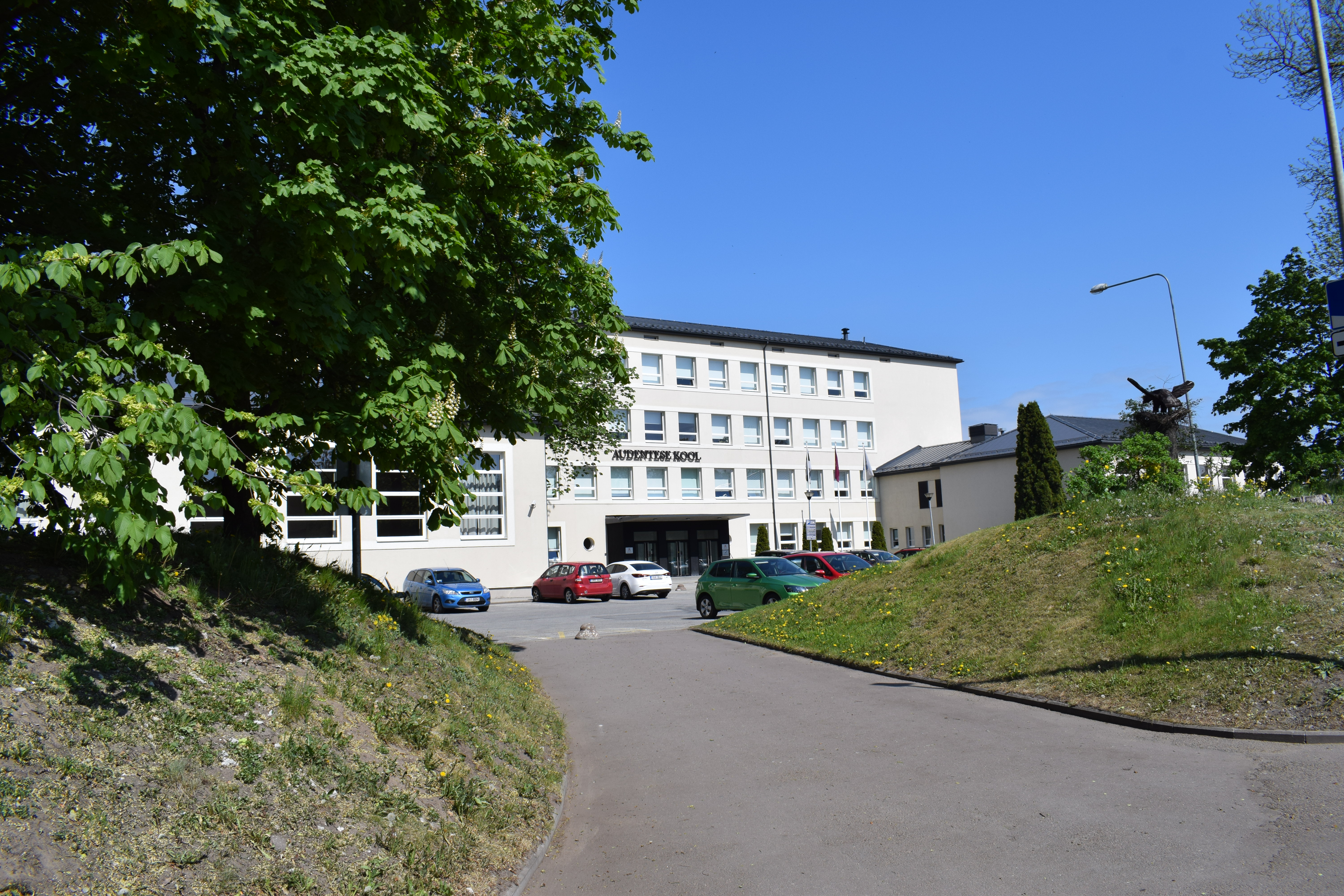 Audentes School